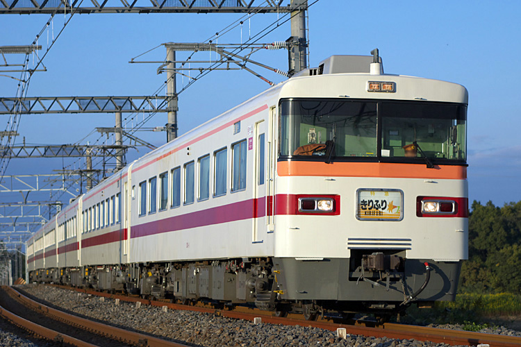 A Tobu Railway 300 series electric multiple unit on a Kirifuri limited express service